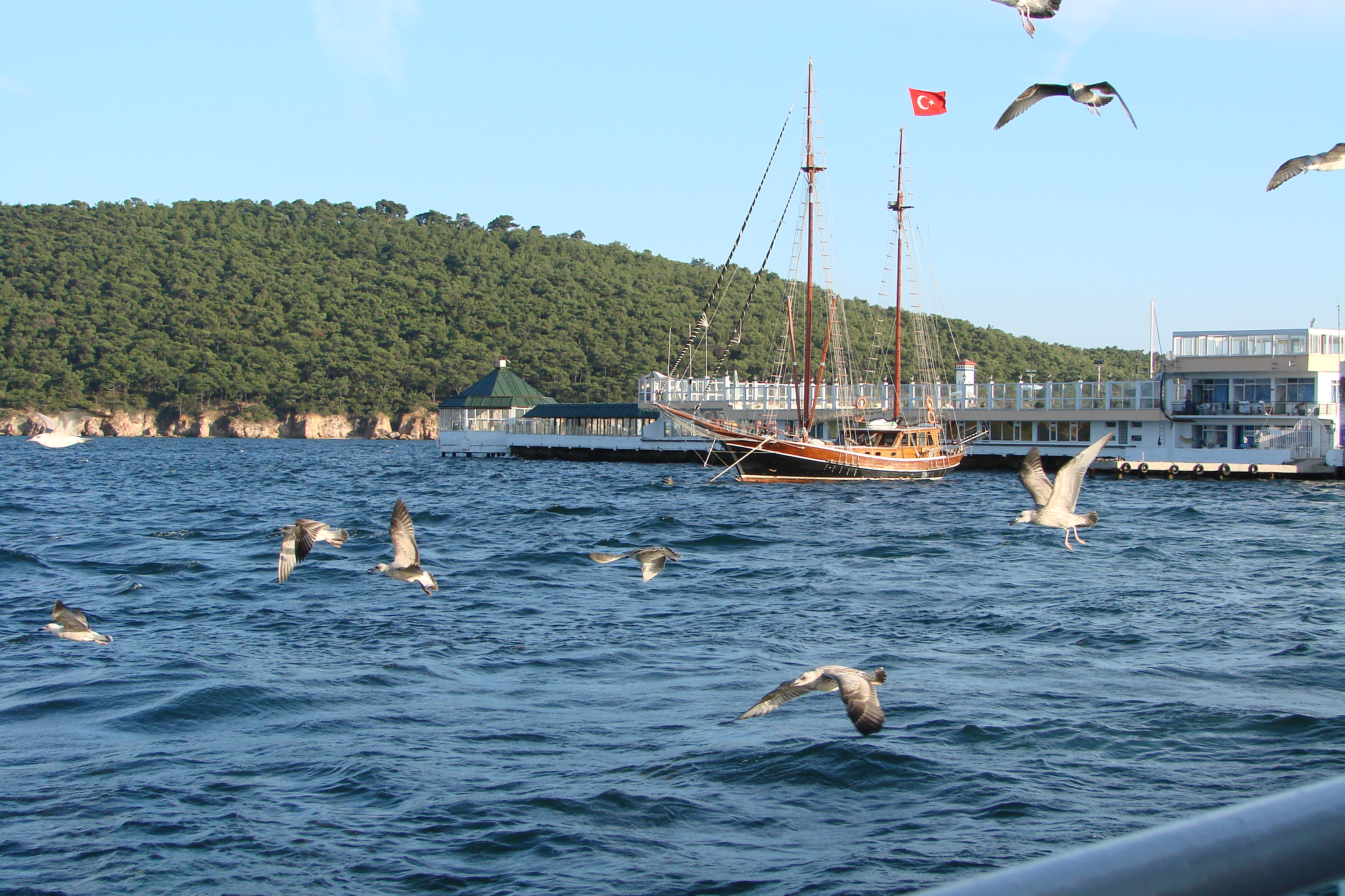 Picture taken by Barış Tarim of the Marina of Burgazada, Istanbul, on a summer evening, as seen from the inner city ferries.